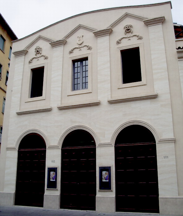 Teatro degli Industri a Grosseto, Tuscany (Italy)